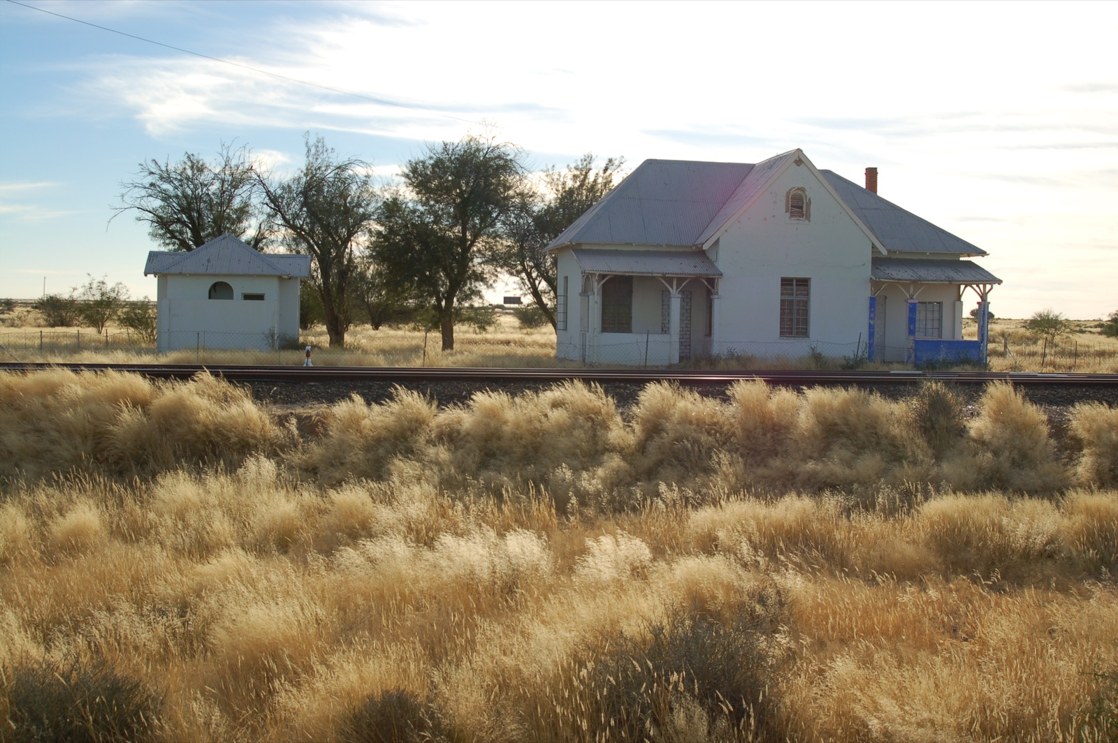 Gibeon train station, Namibia.